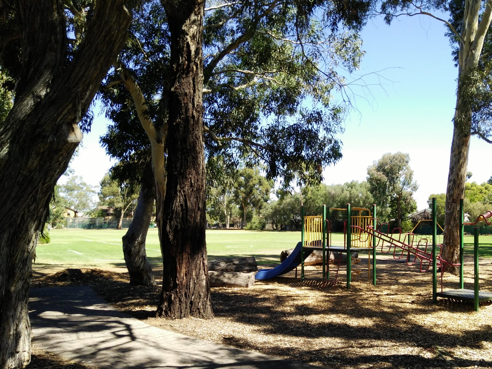 Foerst Ave Reserve in Black Forest, South Australia